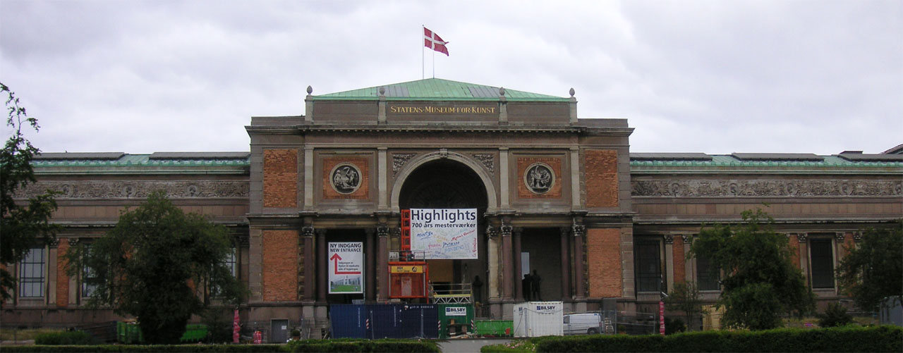 Statens Museum for Kunst (National Art Gallery) in Copenhagen, Denmark.